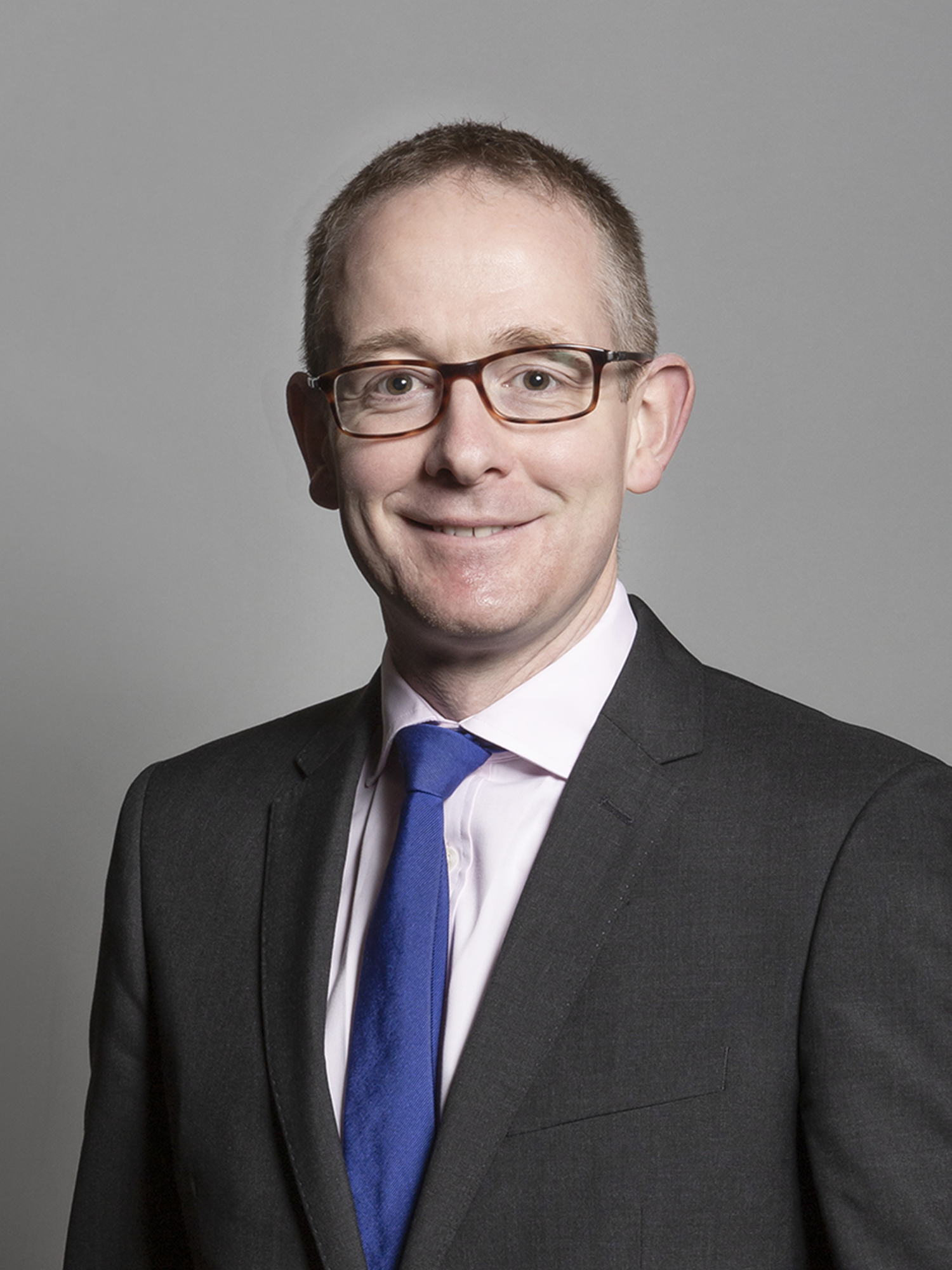 Official portrait of John Lamont MP 3×4 portrait of John Lamont